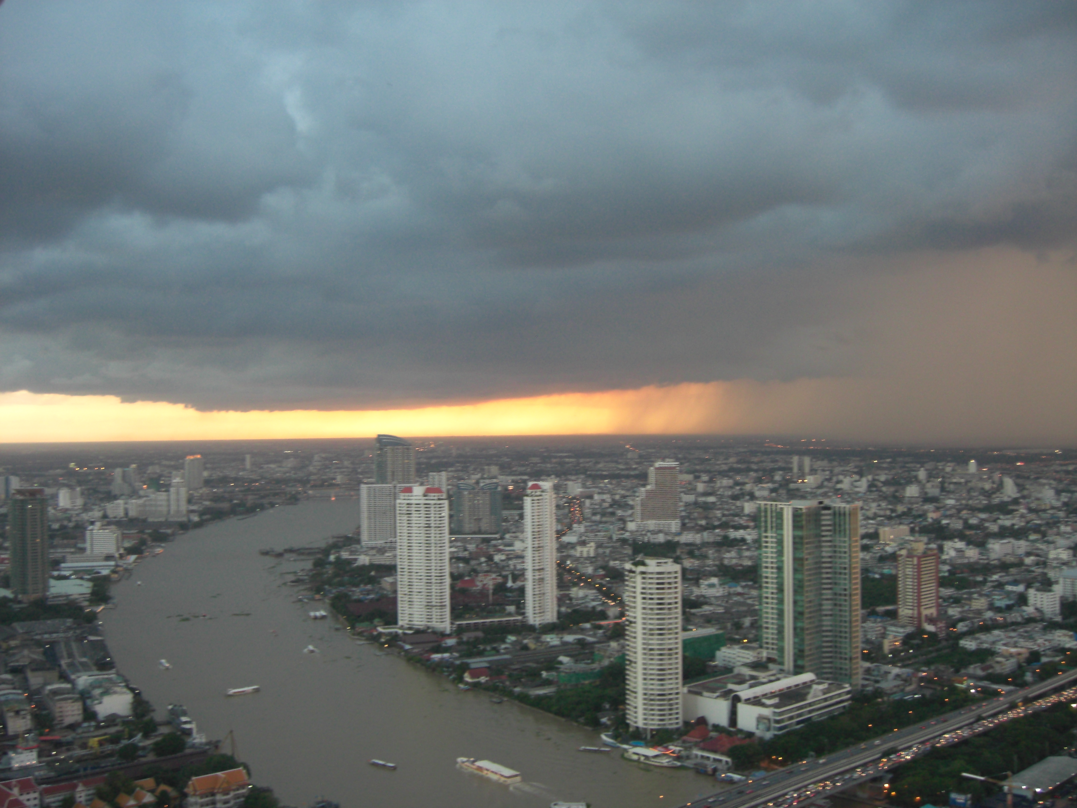 view of Chao Phraya River from our room on the 55th Floor of Lebua State tower hotel , bangkok, Thailand. 2008